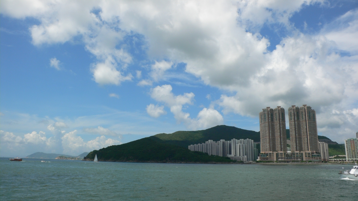 This photo was taken at the east of Lye Yue Mun. The camera is facing south. On the right hand side of the photo is Sui Sai Wan, an eastern area of Hong Kong Island, and the left hand side is Cape Collinson, the eastern end of the northern coast of Hong Kong Island.